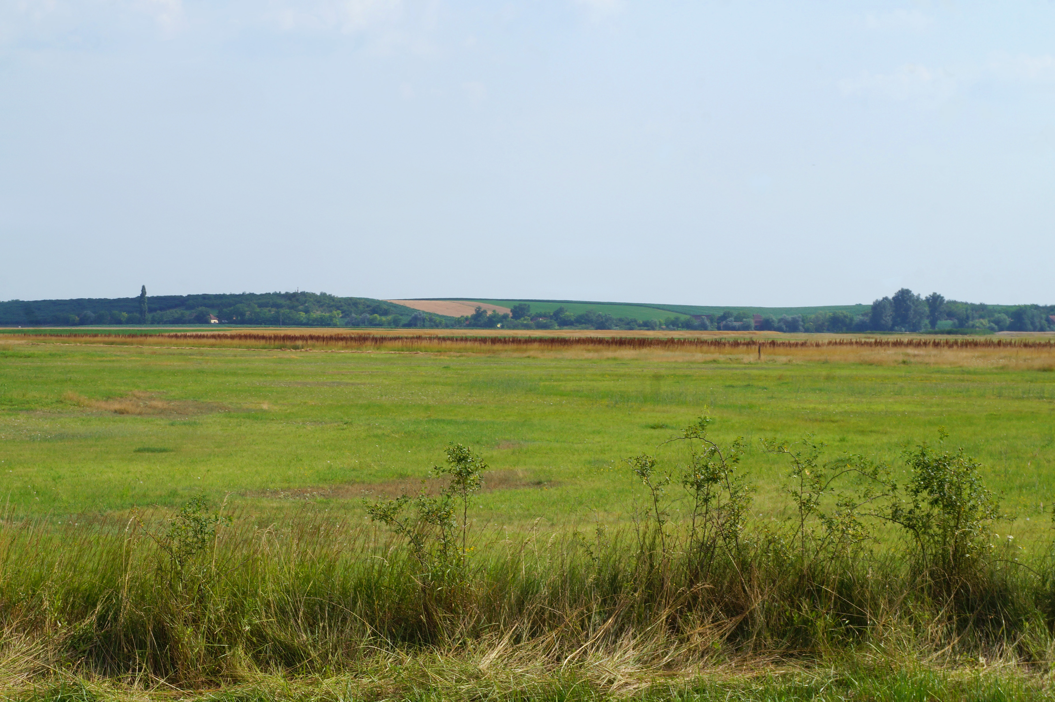 Loess plateau known as Telečka, its eastern side, near river Tisza, in Serbian Bačka